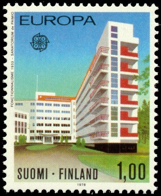 Postage stamp depicting the Paimio hospital building designed by Alvar Aalto (about 1930)